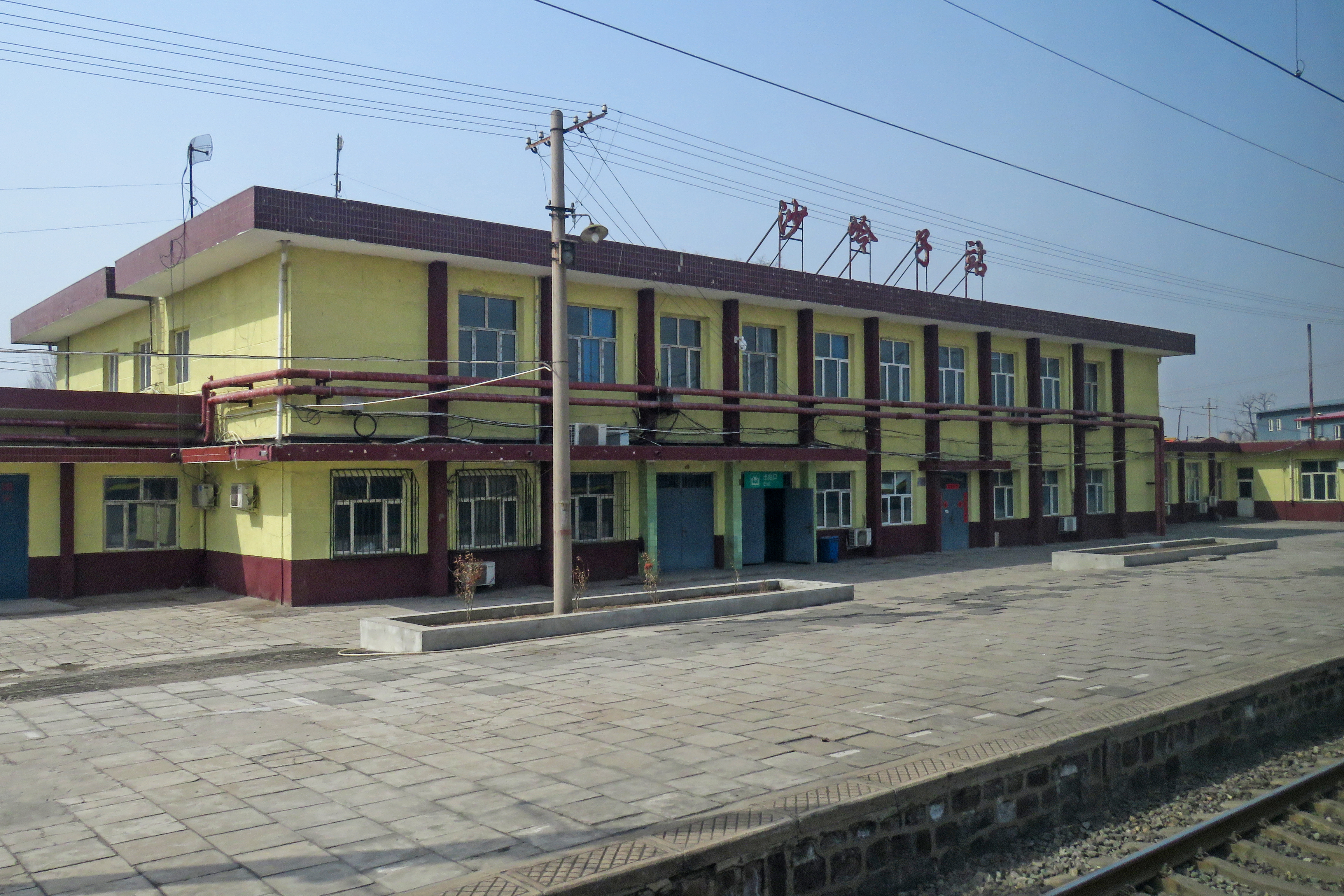 Passenger service suspended after the opening of Shalingzixi.